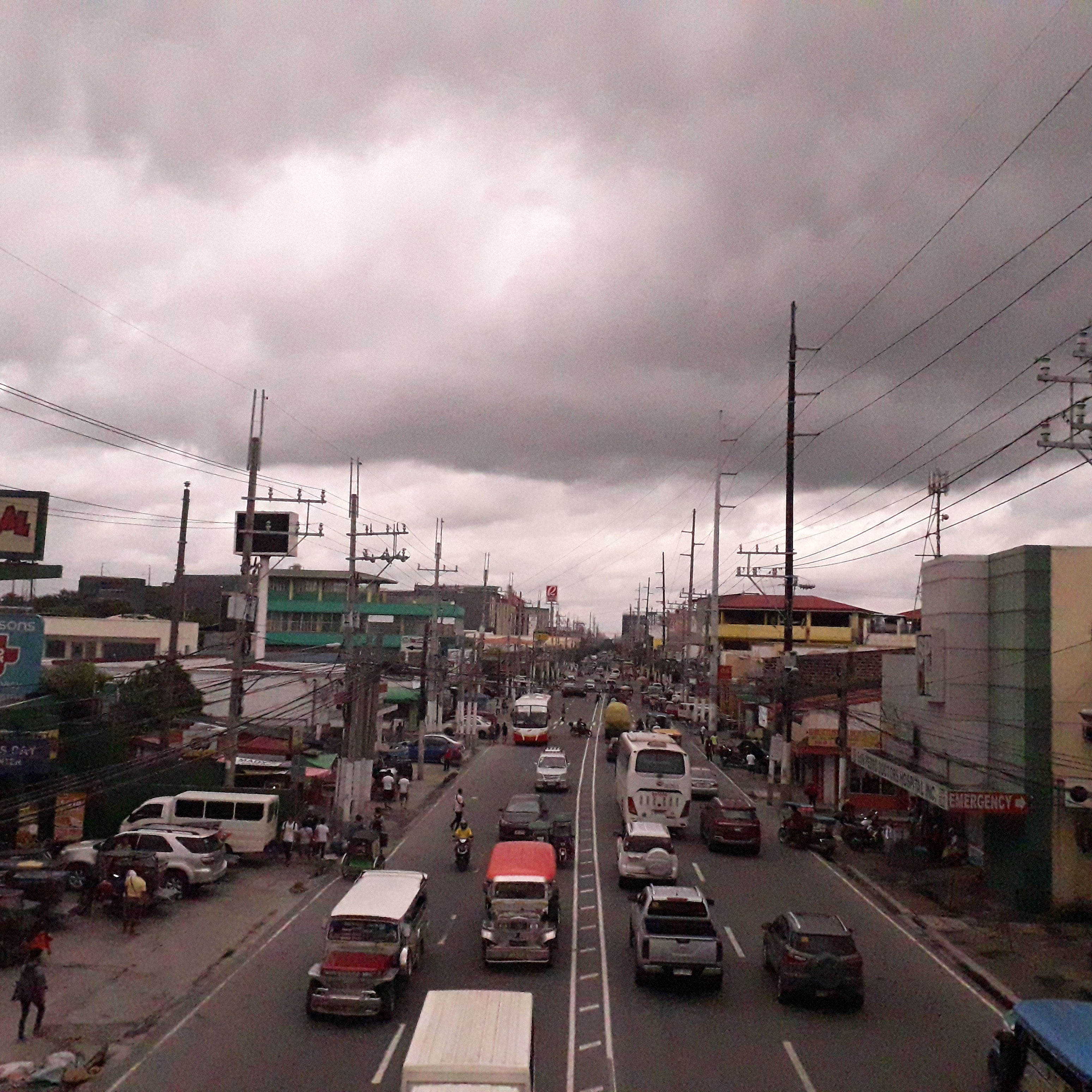 View of Manila South Road (Old National Highway) San Pedro City, Laguna.